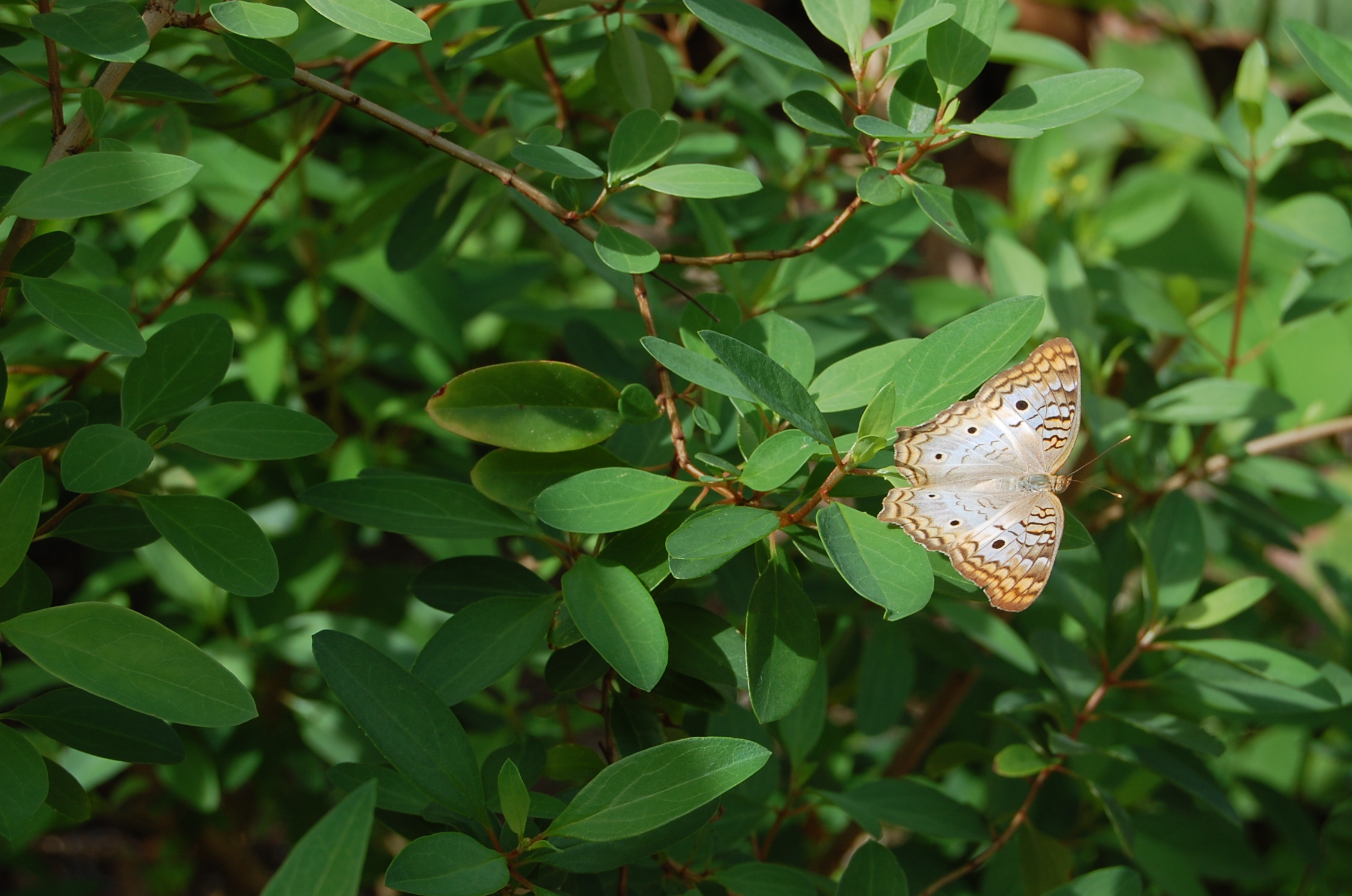 Wild Anartia jatrophae (White Peacock) butterfly on Grand Cayman.